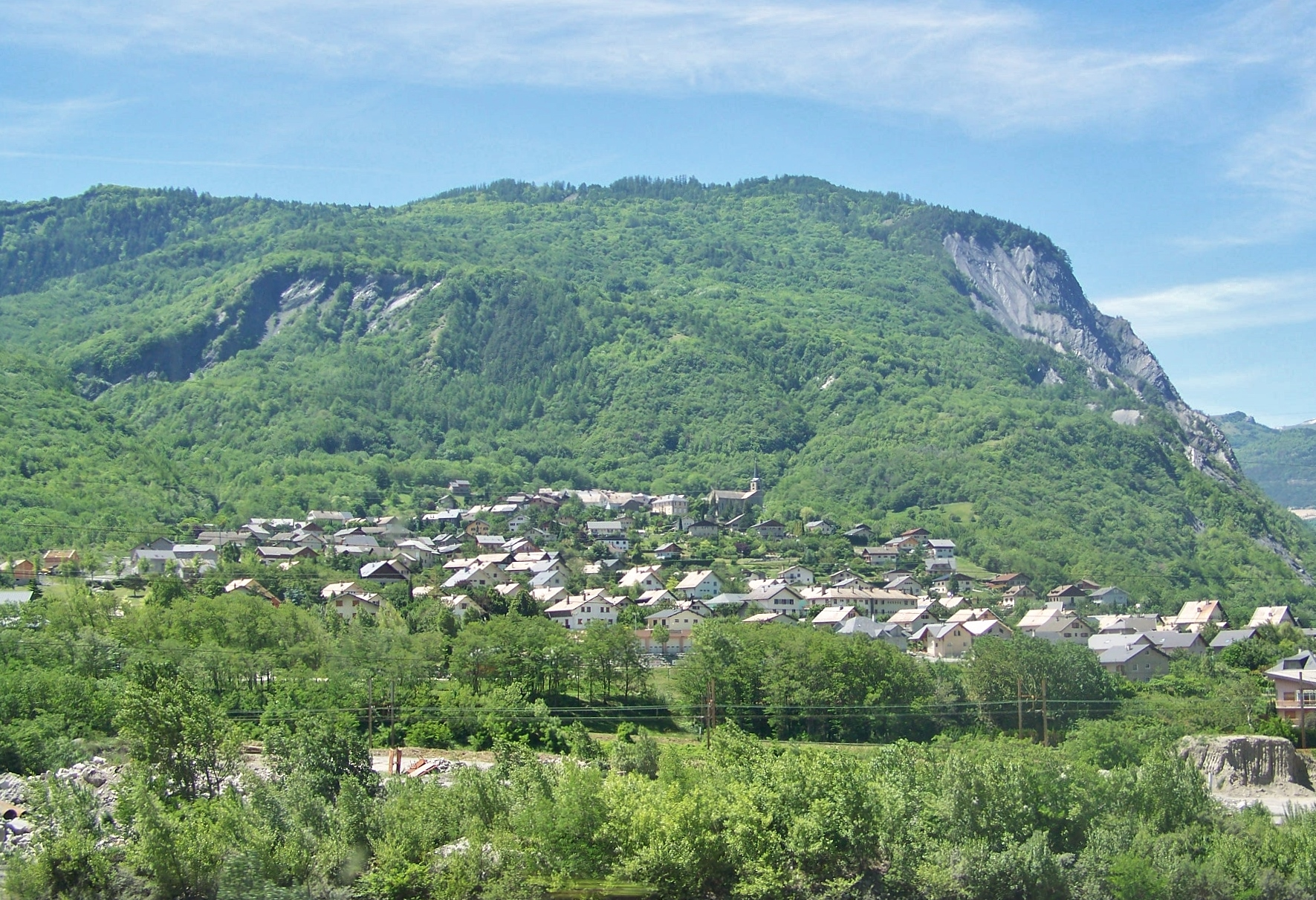 Sight of French village of Villargondran near Saint-Jean-de-Maurienne in the Maurienne valley, in Savoie.